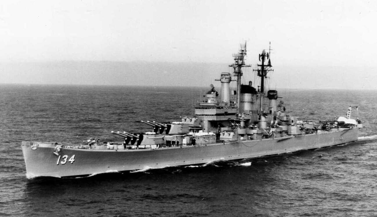 The U.S. Navy heavy cruiser USS Des Moines (CA-134) underway at sea, circa in the late 1950s.